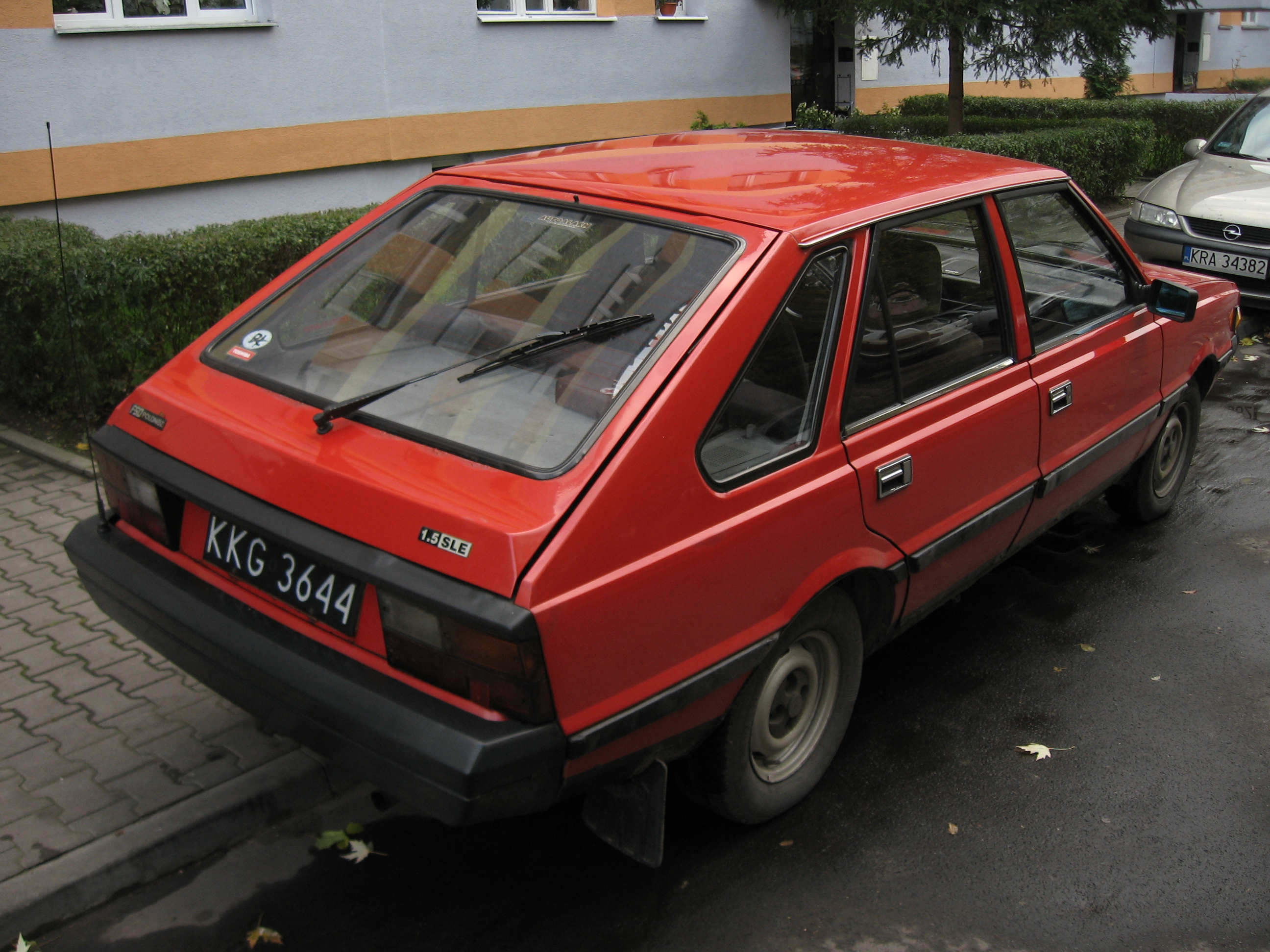 Red FSO Polonez MR'87 1.5 SLE with the front from FSO Polonez MR'83 in Kraków. This example was produced in 1989.